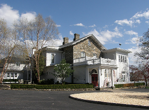 Oldstone is a home built c 1760 by Pierre Van Cortlandt, located at 28 Bear Mountain Bridge Road, Cortlandt Manor, NY 10567. Photo taken May, 2014.